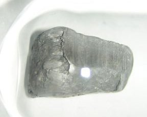 1 gram of Thallium